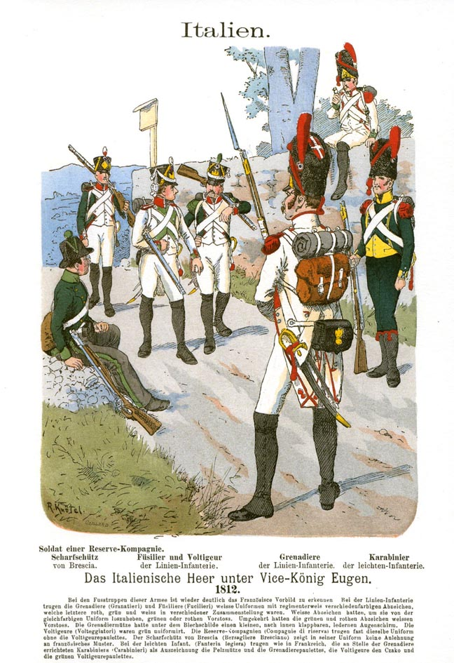 Italien. Das italienische Heer unter Vice-König Eugen. 1812